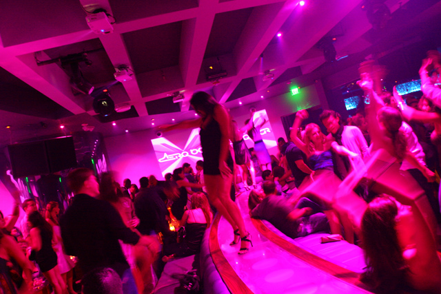 Aero Bar in Miami Beach, FL